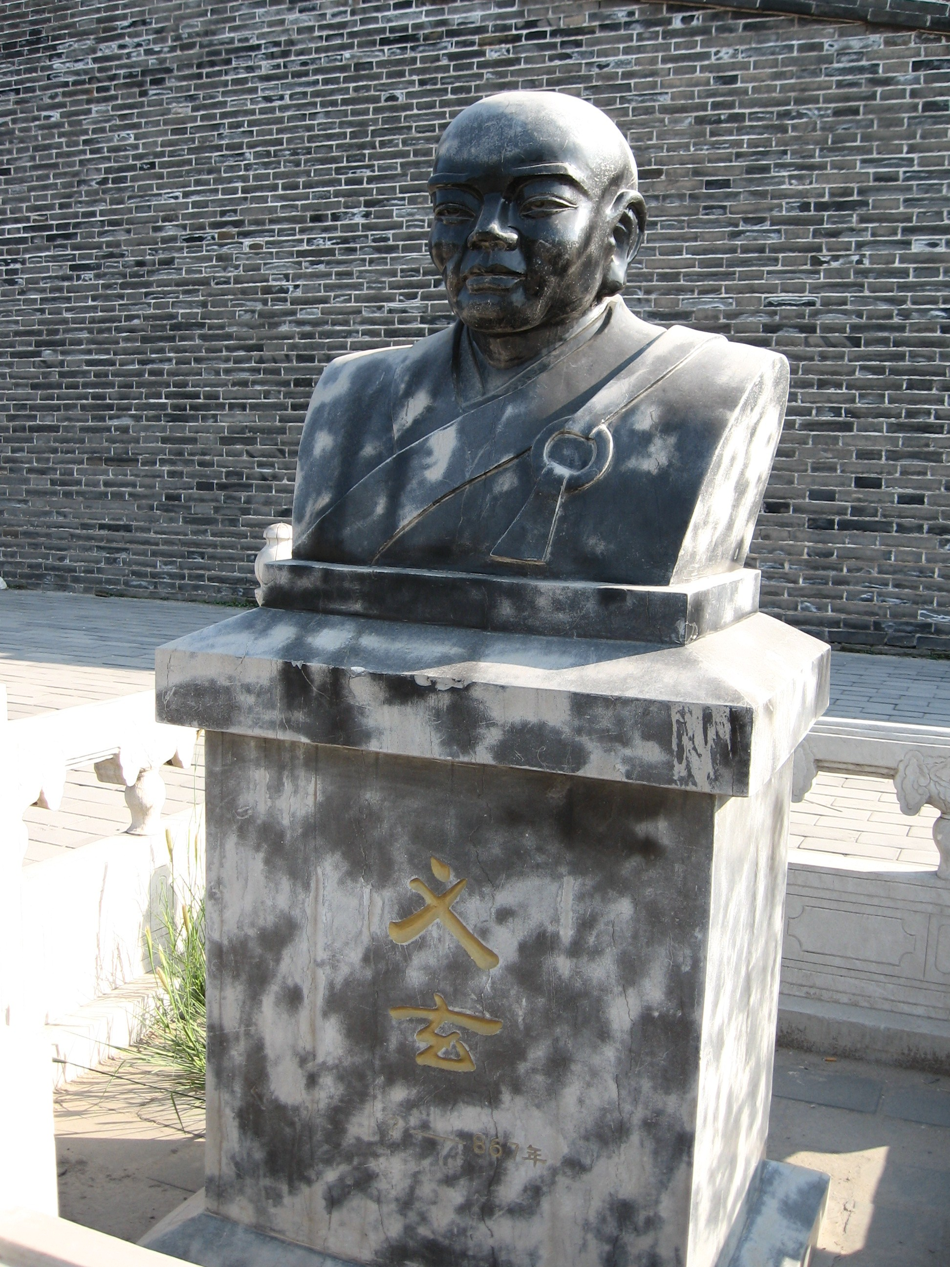 A statue of Linji Yixuan.中国河北省正定县南城门（长乐门）内的义玄雕像。